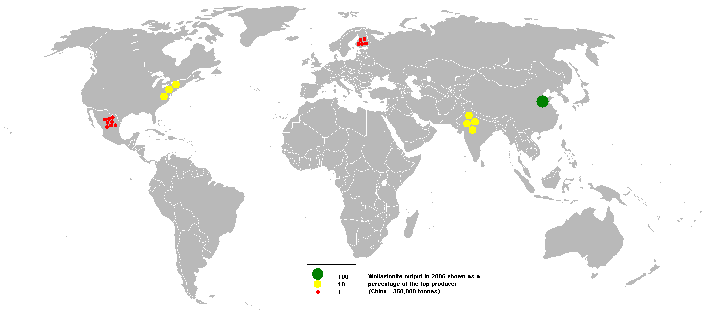 This bubble map shows the global distribution of wollastonite output in 2005 as a percentage of the top producer (China - 350,000 tonnes). This map is consistent with incomplete set of data too as long as the top producer is known. It resolves the accessibility issues faced by colour-coded maps that may not be properly rendered in old computer screens. Data was extracted on 31st May 2007. Source - Based on Image:BlankMap-World.png